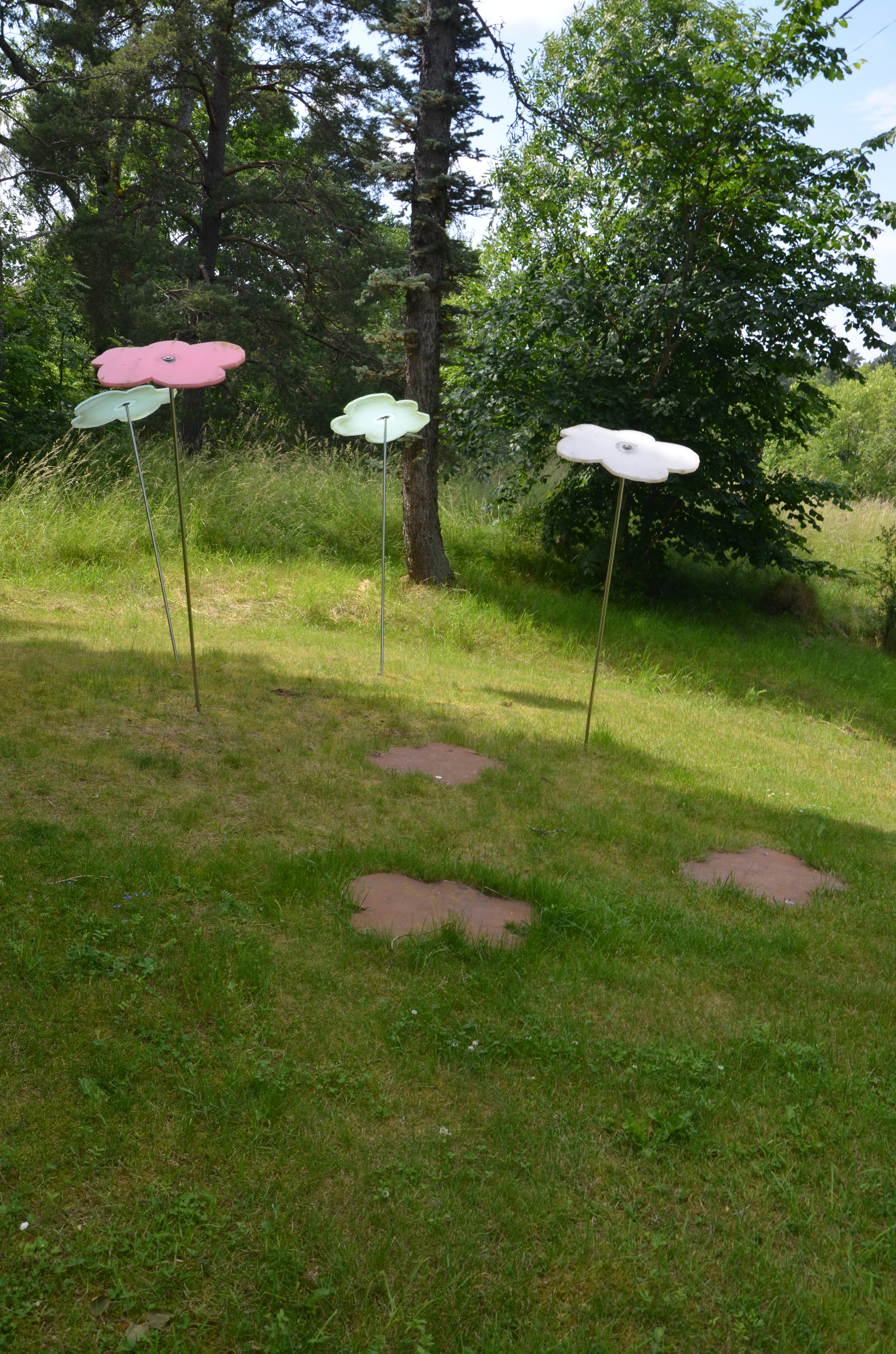 Pupinupporna och abbotens lustar, 2007, brons, stål, plast, av SImon Häggblom och Karin Lind, Görvelns slotts skulpturpark